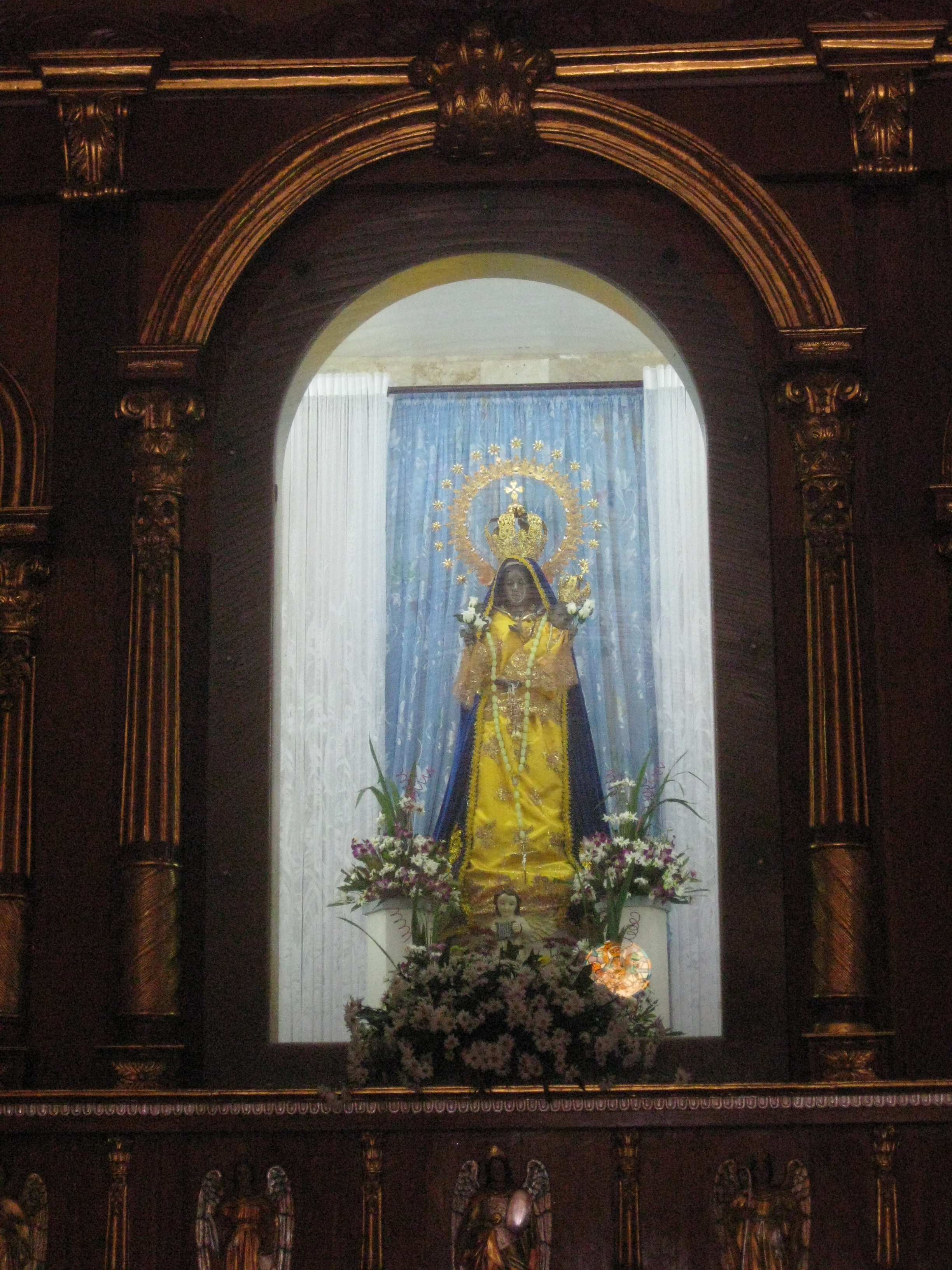 This is the Image of Our lady of Piat enshrined in a high altar in her home shrine at Basilica of Our Lady of Piat.